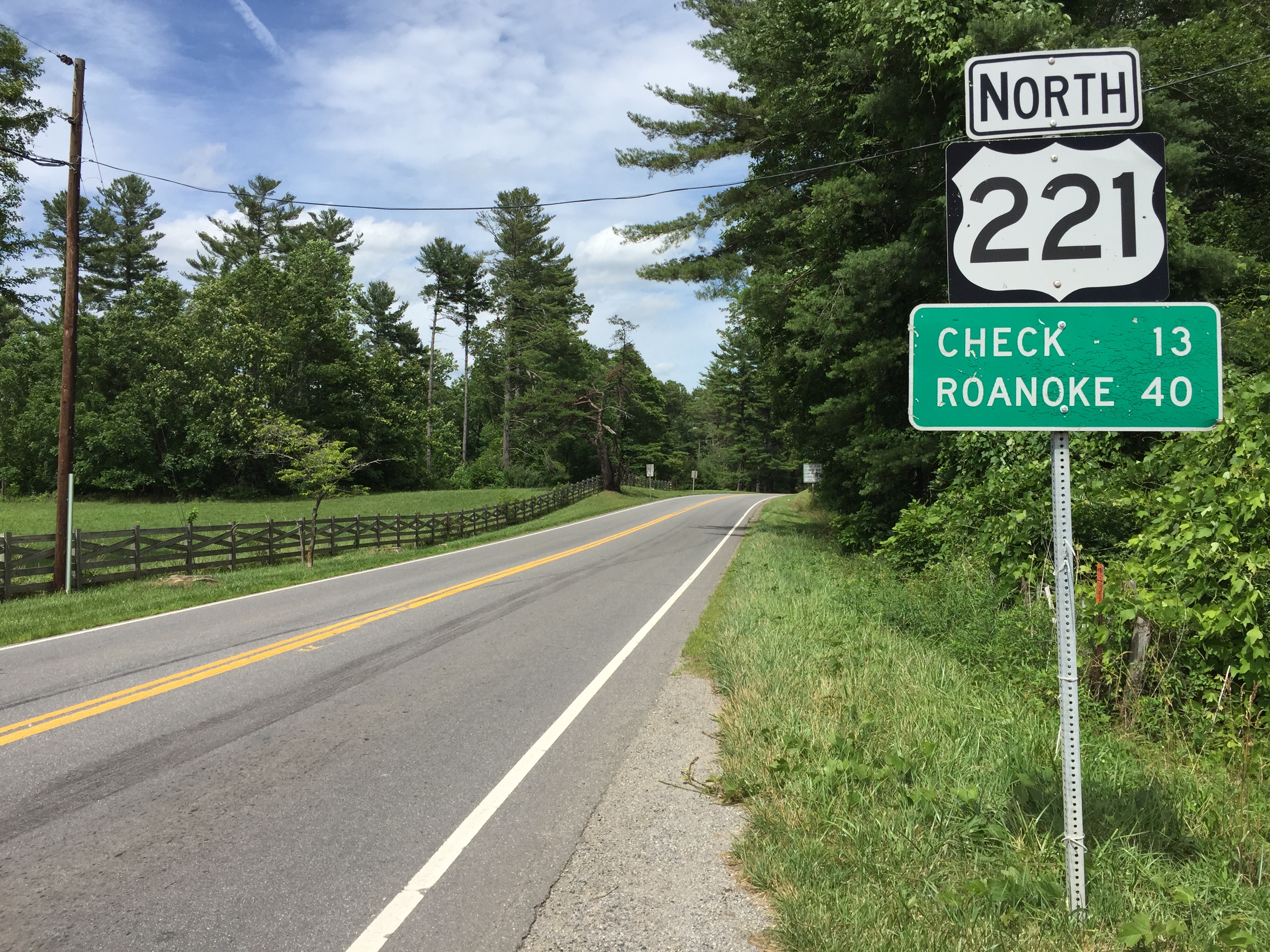 View north along U.S. Route 221 (Floyd Highway) at Christiansburg Pike (Virginia State Secondary Route 615) just northeast of Floyd in Floyd County, Virginia